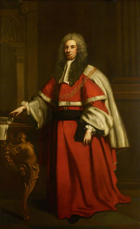 All images in this batch have a known author with unknown death date, but according to the NPG's website the author was floruit (known to be active) prior to 1859, and so is reasonably presumed dead by 1939, given to the National Portrait Gallery, London in 1877.